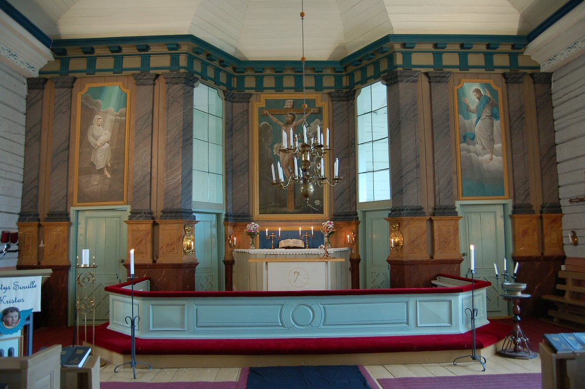 The altar in the church of Ylikiiminki parish, Finland. The painting at the center is by Gustaf Holmqvist (1839), bordered by two paintings by Reijo Nissilä (1986).